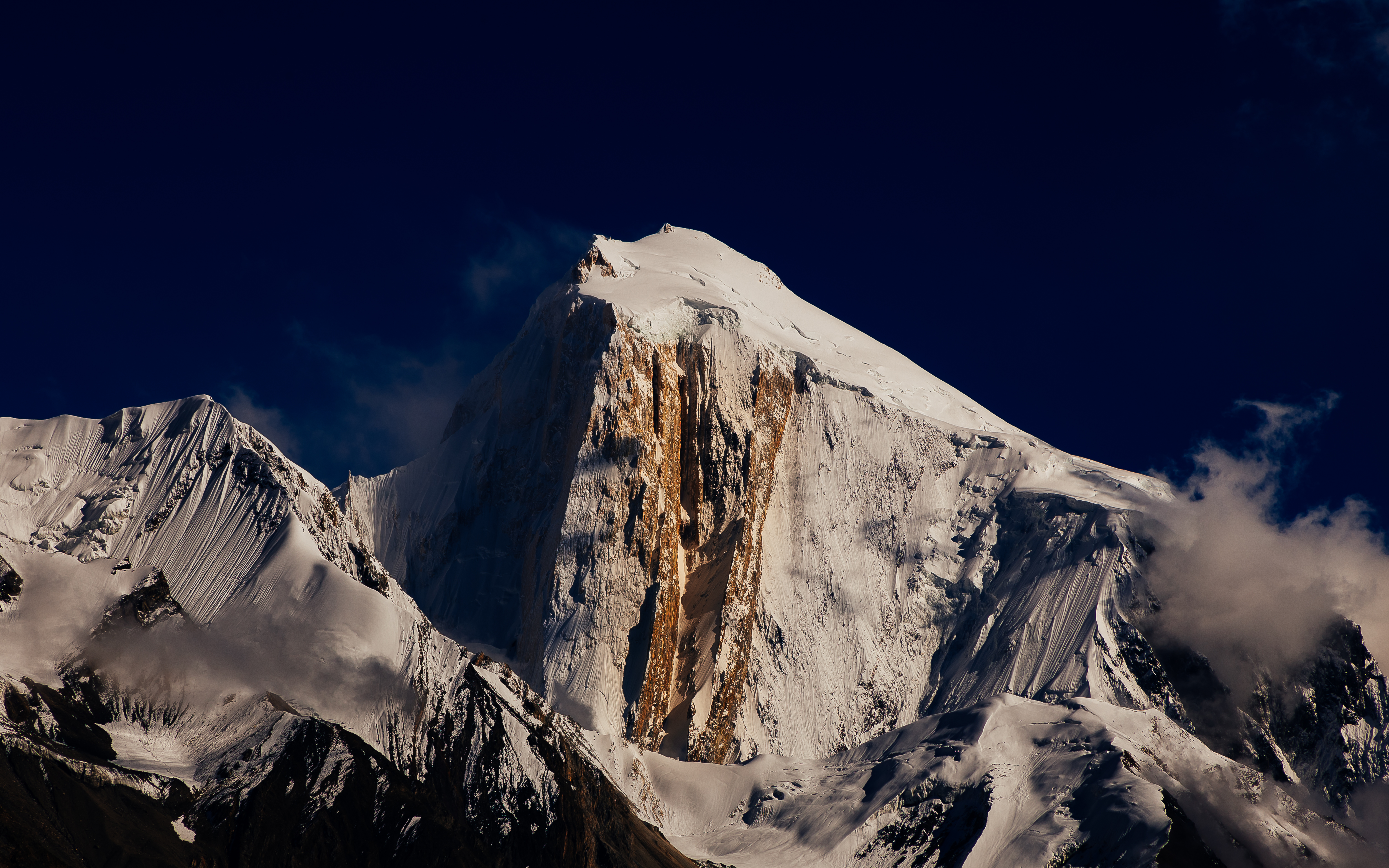 Deep within the sub ranges of Karakarom lies the unique vertical rock structure of the Spantik, more commonly known as the Golden Peak. It is so gigantic that you can look at it for hours without blinking, just staring at its patterns and lines Elevation: 7,027 m Mountain range: Spantik-Sosbun Mountains Parent range: Karakarom, Nagar